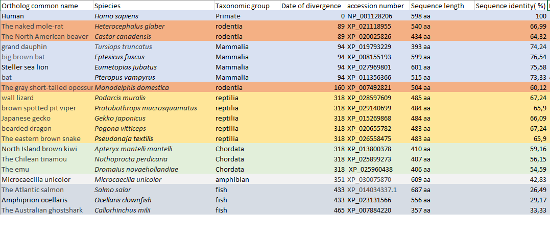 A table of orthologs of c1orf94 and the years of divergence